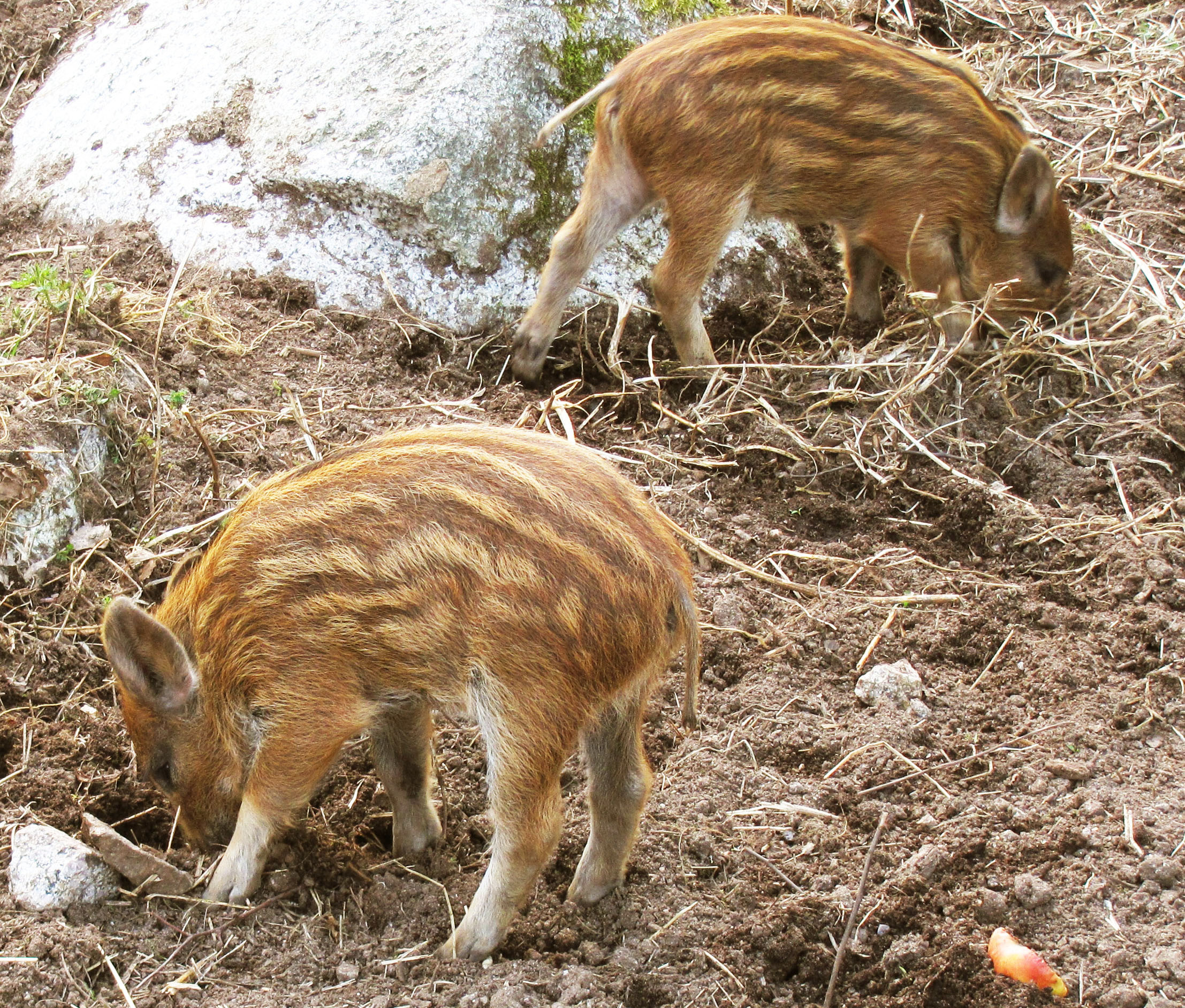 Piglets of wild board in Ysitien Lemmikki Zoo